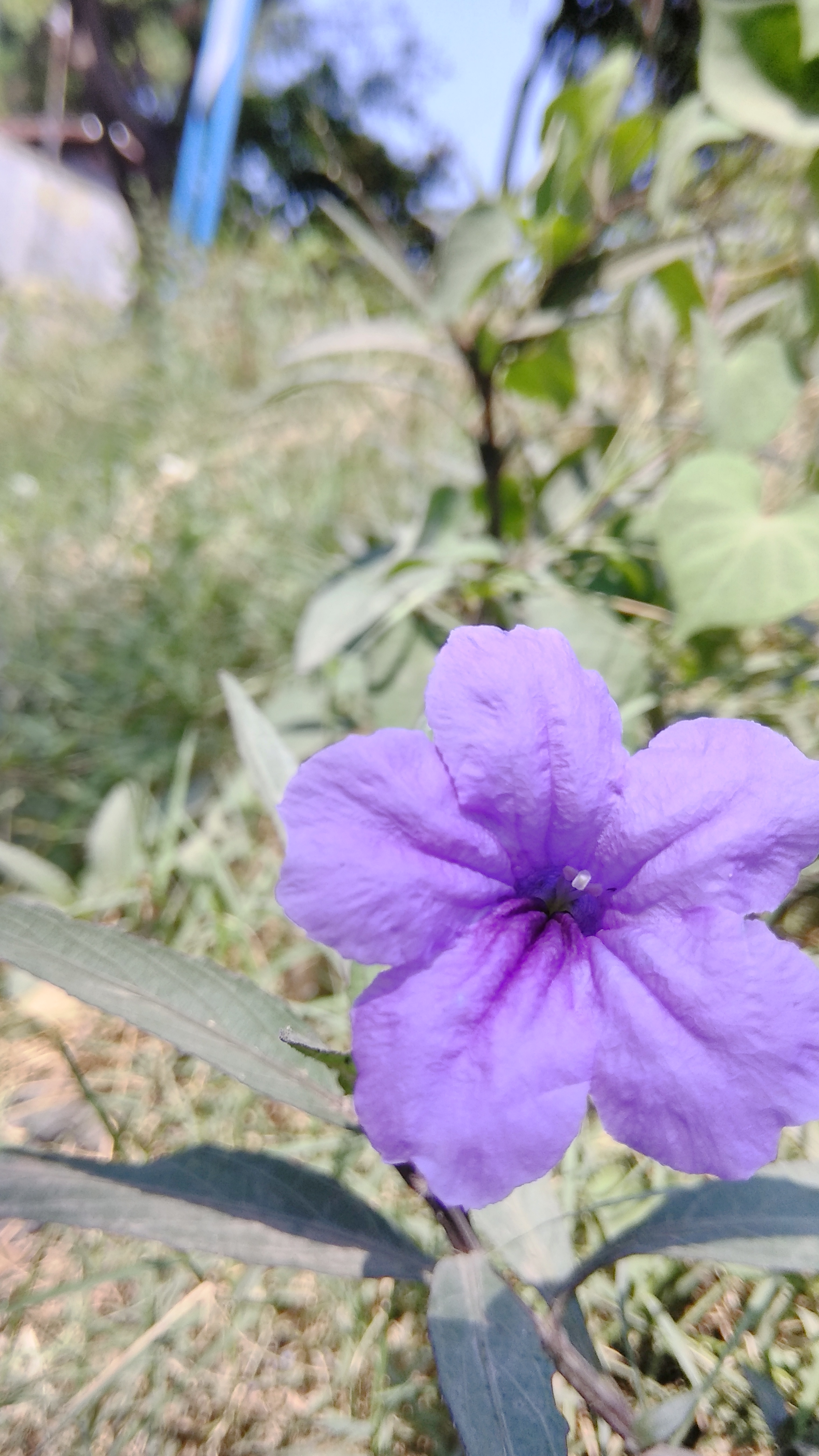 Ruellia simlpex